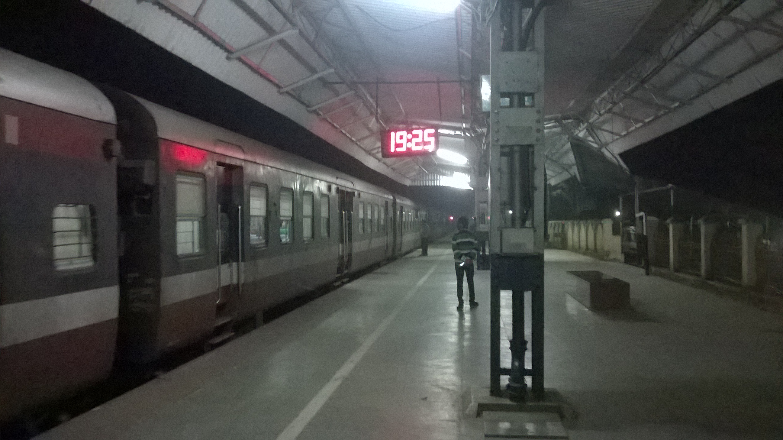 New Maynaguri Railway Station @ Platform 1